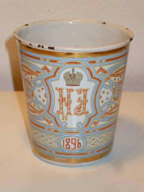 The Coronation cup, also known as Khodynka, The sorrow cup or The blood cup was made for the Coronation of Tsar Nicholas II and Tsarina Alexandra Feodorovna in 1896. The cup bears the cyphers of Nicholas and Alexandra surrounded by a geometric pattern with the Romanov eagle on the opposite side.